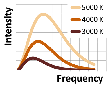 Planck's law vs frequency